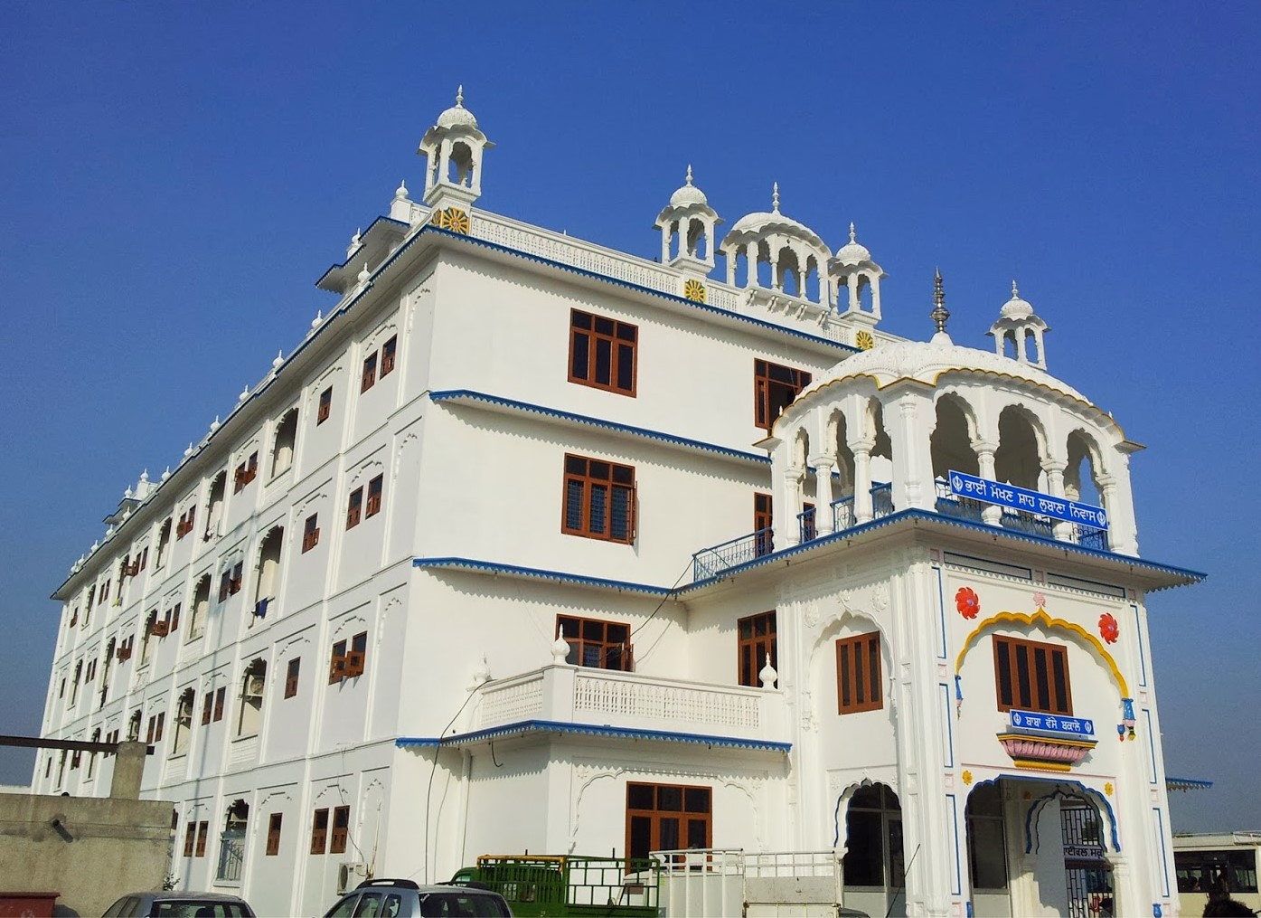 Picture showing the exterior of the lodging facilities available at Baba Baka Sahib.